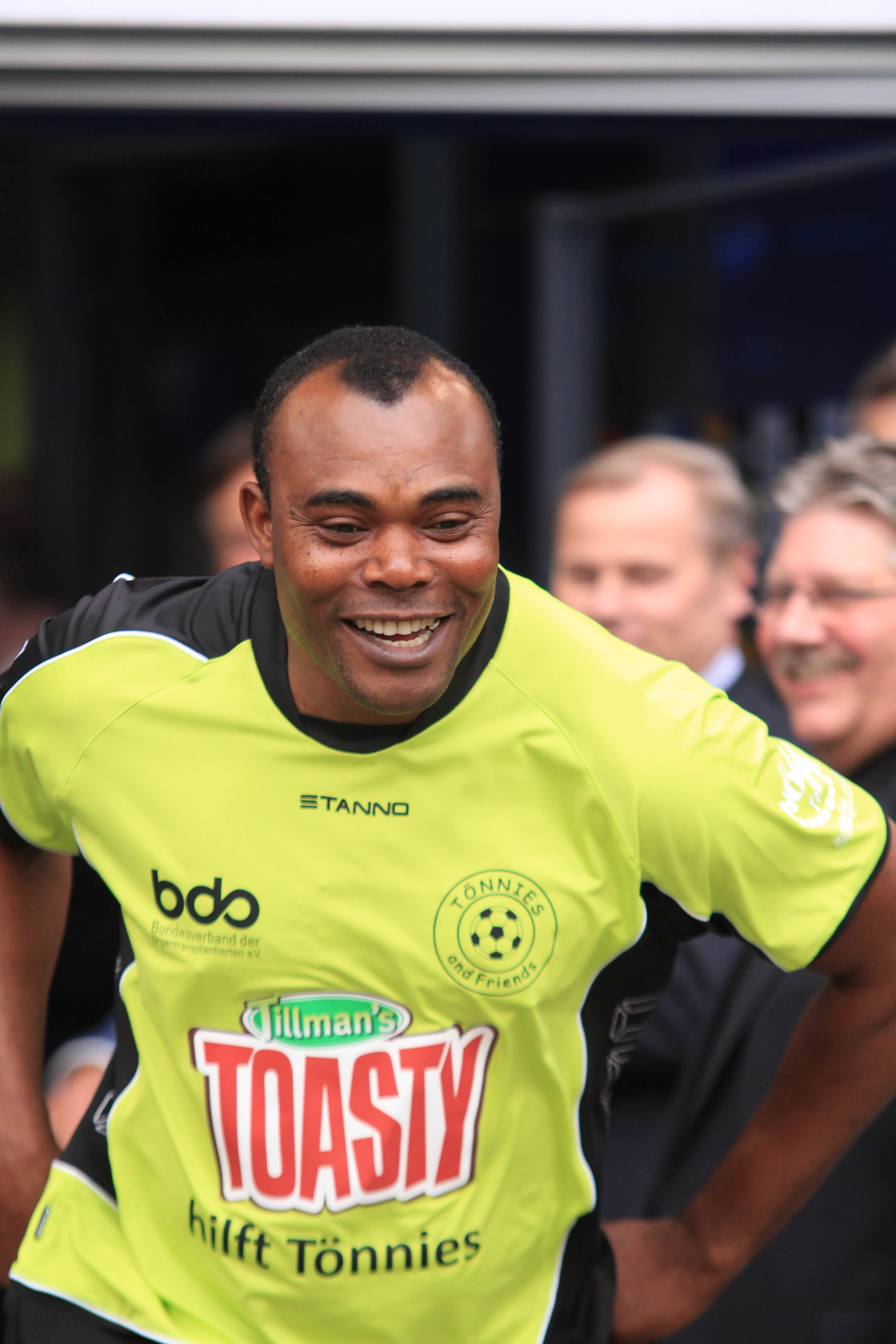 Former Togolese footballer Bachirou Salou at the benefit match "Tönnies and Friends versus MSV-Traditionself", May 2012